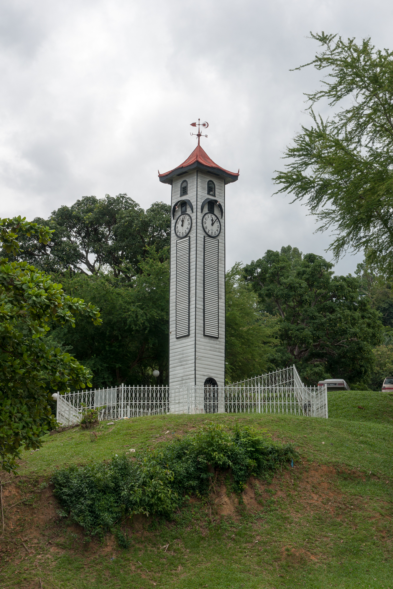 Kota Kinabalu (Sabah): Atkinson Clock Tower)